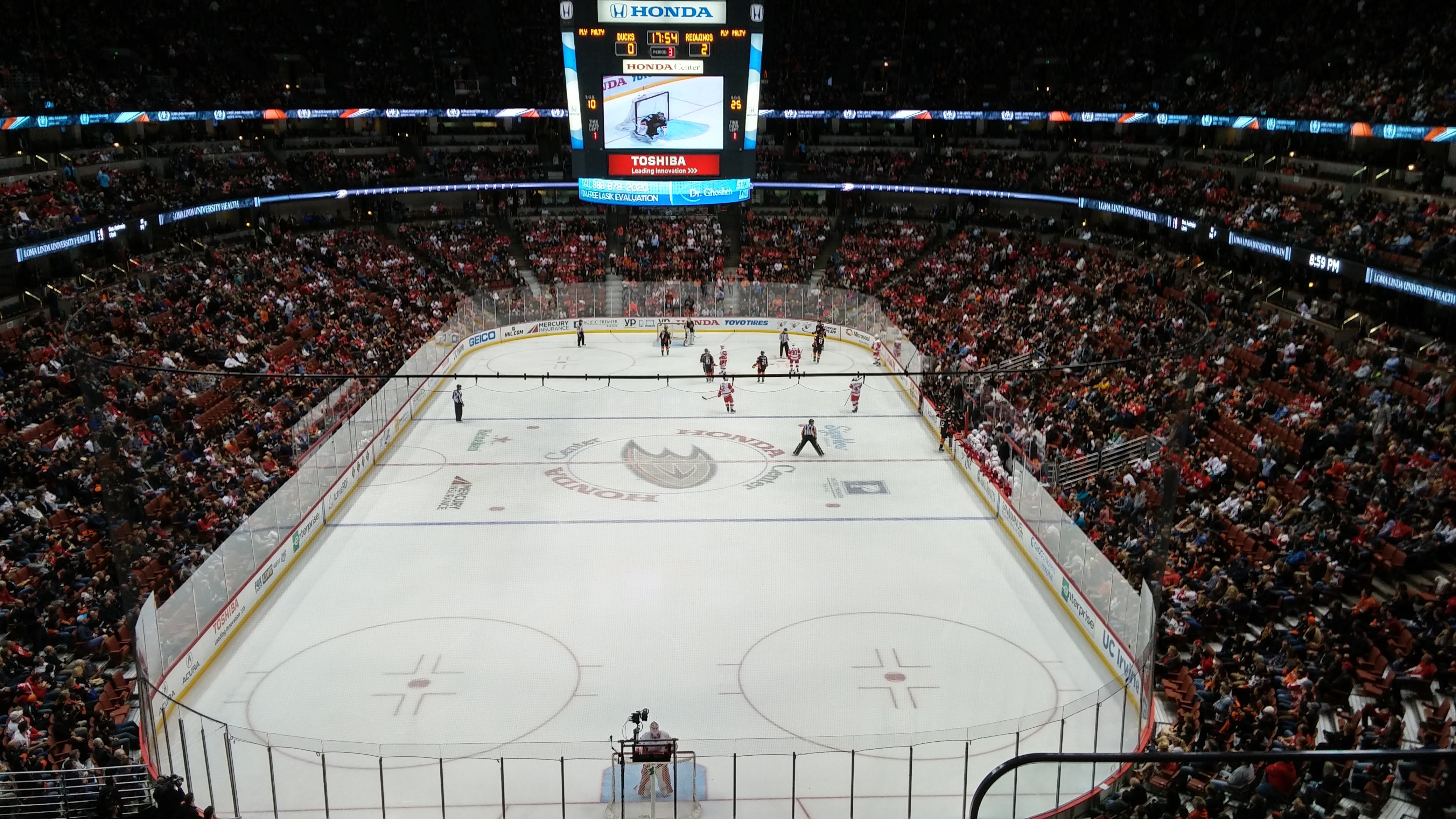 Anaheim Ducks vs. Detroit Red Wings February 23 2015 photo D Ramey Logan